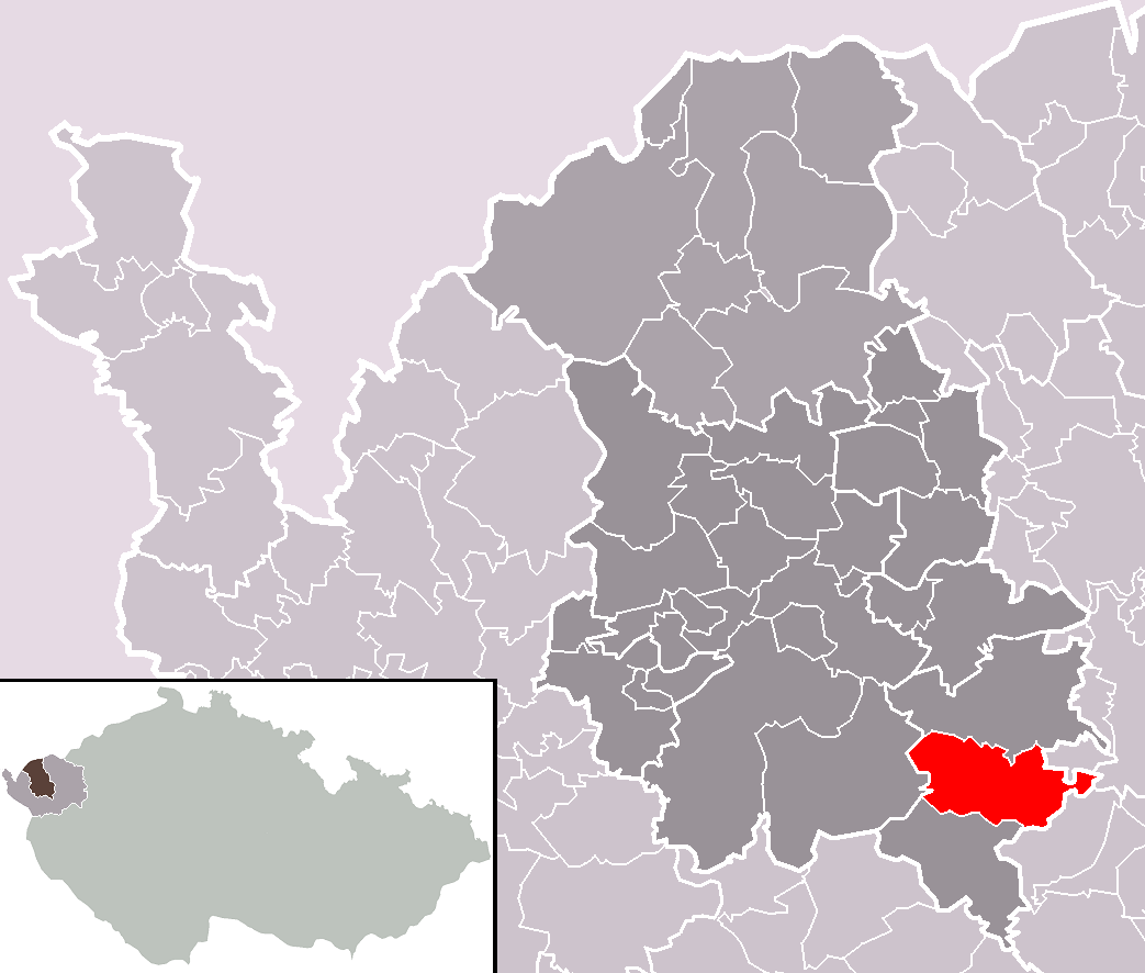 Location of Krásno town within Sokolov District and administrative area of Sokolov as a Municipality with Extended Competence.